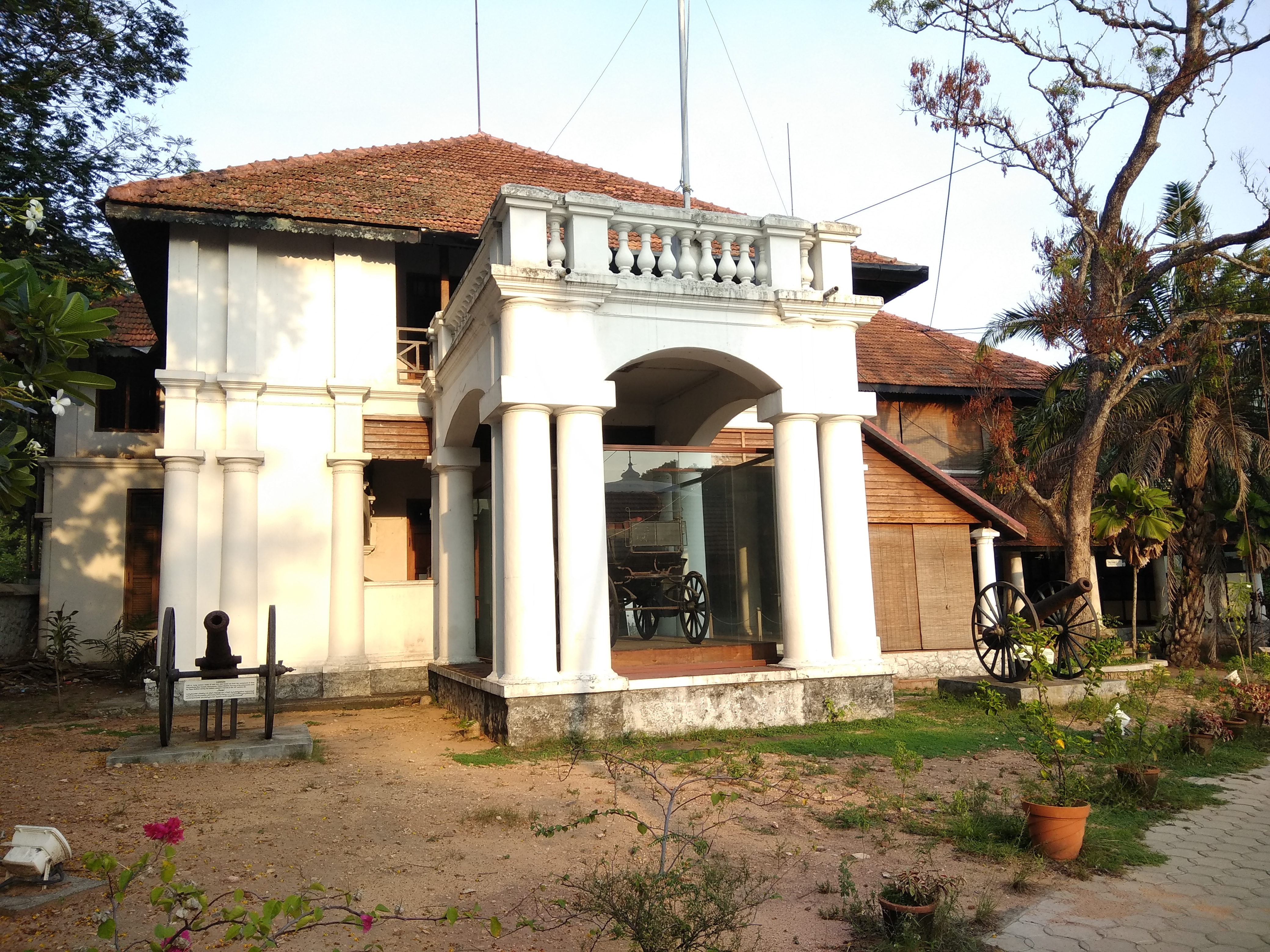 Keralam Museum of History and Heritage, Park view, Thiruvananthapuram, 695033